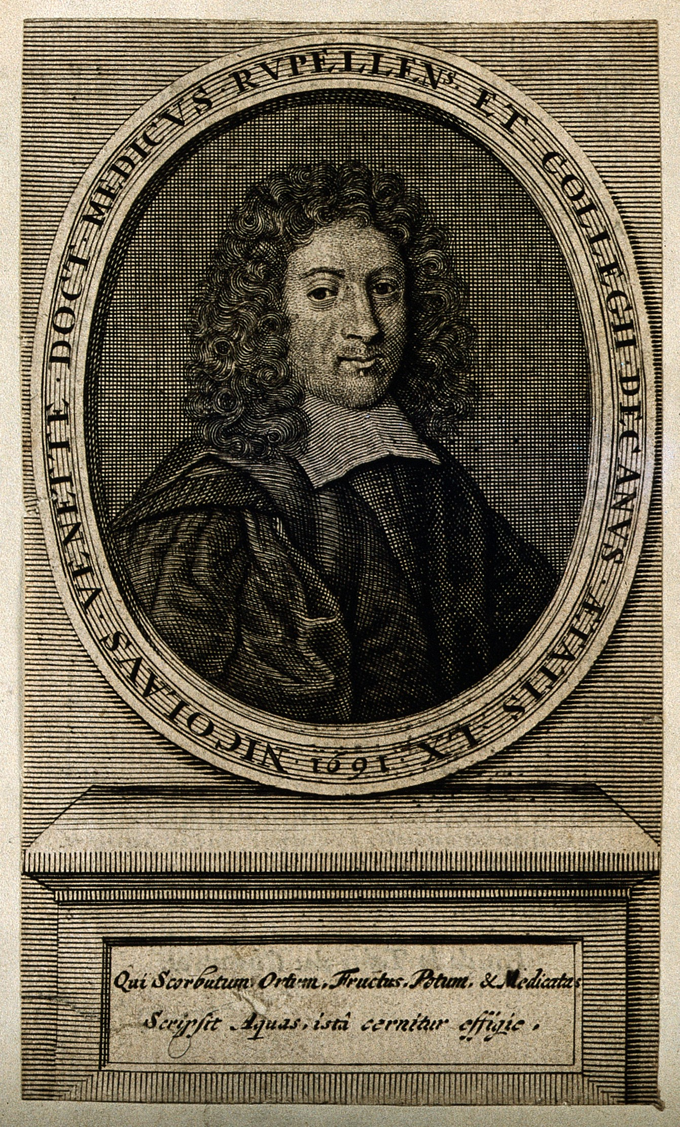 Nicolas Venette. Line engraving, 1696. Iconographic Collections Keywords: Nicolas Venette